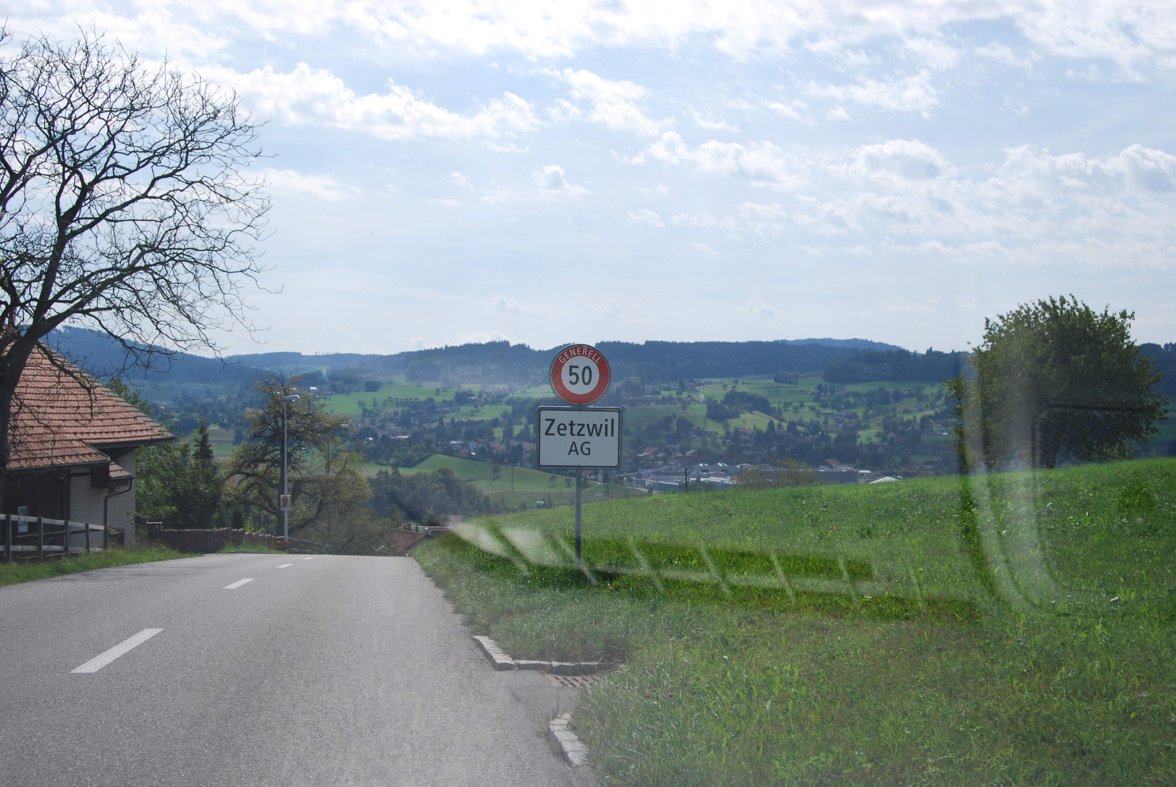 Zetzwil, canton of Aargau, SwitzerlandEsperanto: Zetzwil, Kantono Argovio, Svislando